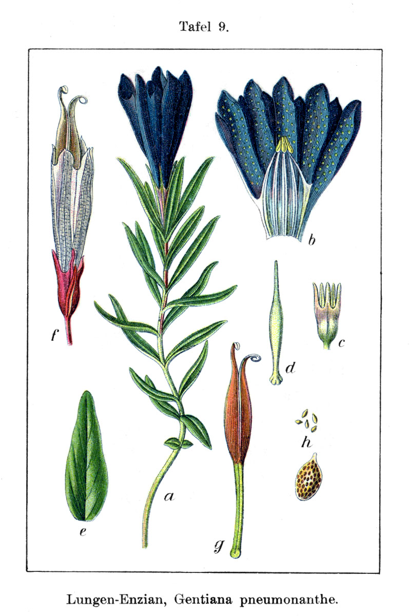 Gentiana pneumonanthe L. Original Caption Lungen-Enzian, Gentiana pneumonanthe